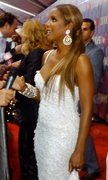 Toni Braxton on the Red Carpet at Vh1 Divas 2009.